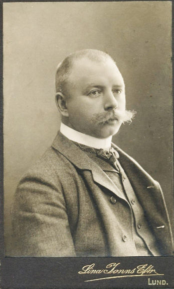 Albert Sahlin (1868-1936), Swedish manufacturer, collector and politician in Eslöv, Sweden.